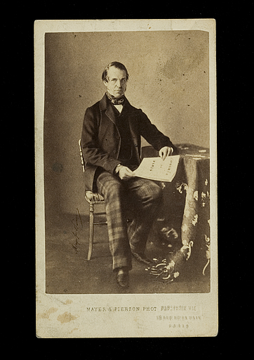 Henry Wellesley, 1st Earl Cowley (1804-1884)